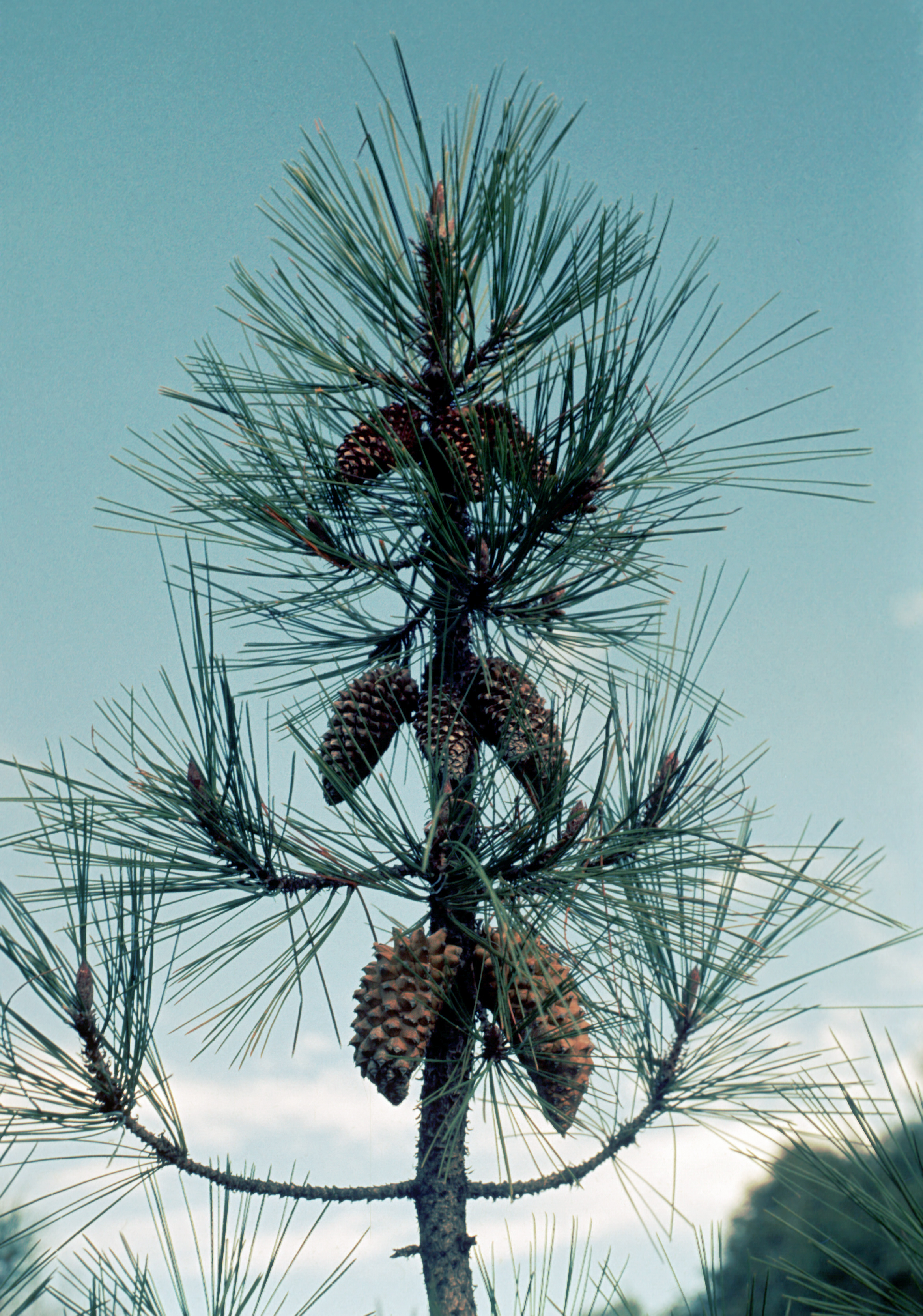 Pinus attenuata top of tree with persistent cones. California.